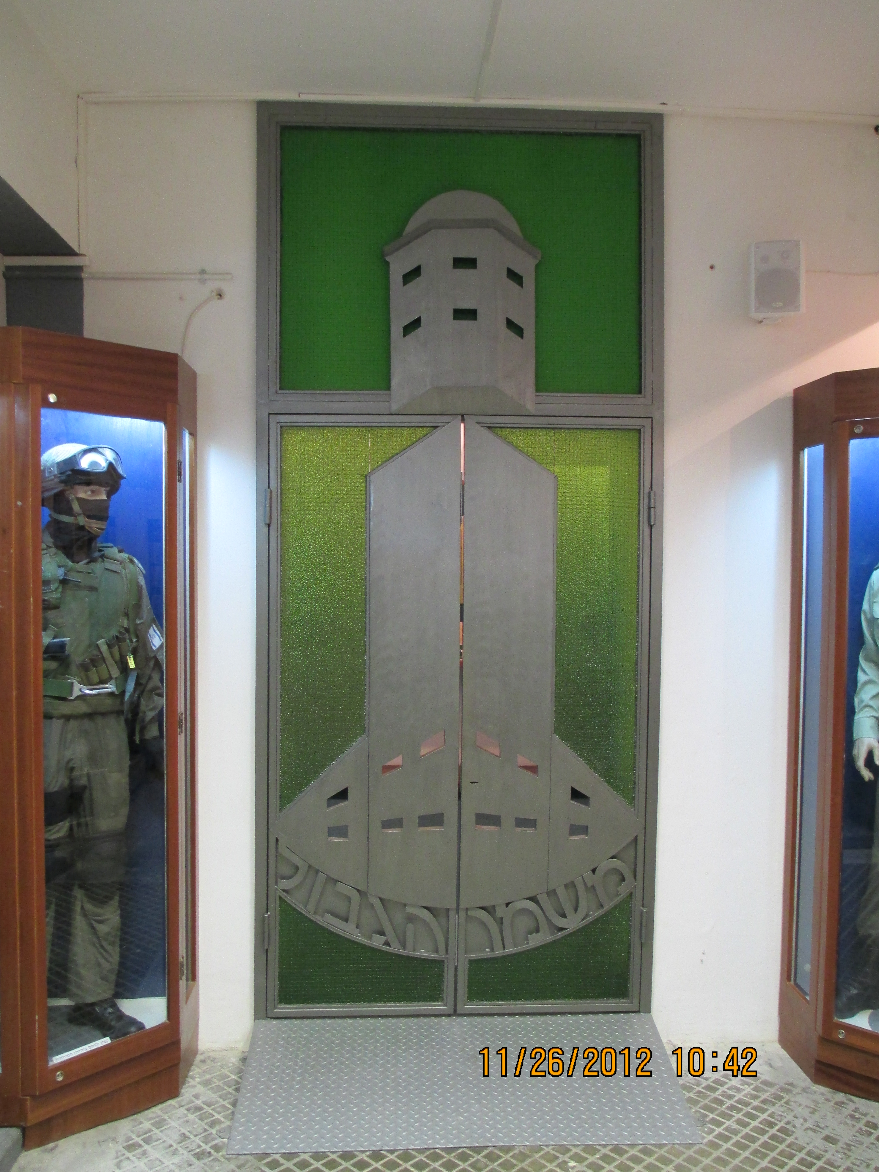 israel border police c.o.a in police training school in kiryat ata סמל משמר הגבול בכניסה לחדר משמר הגבול במוזיאון מורשת משטרת ישראל במרכז ללימודי משטרה בקריית אתא